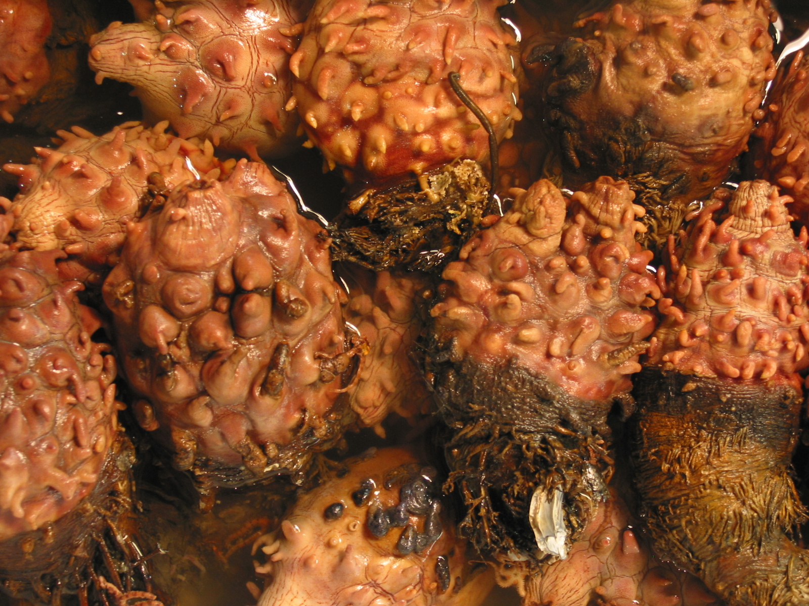 Sea pineapples (Halocynthia roretzi) at Tsukiji Market, Tokyo, Japan